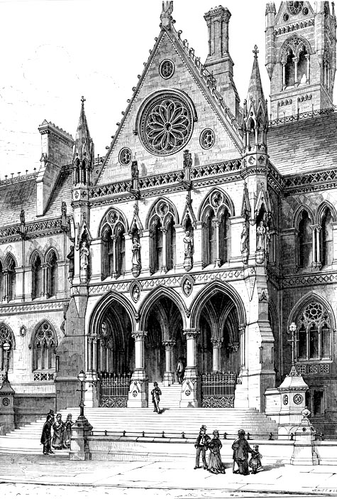 engraving of Manchester Assize courts